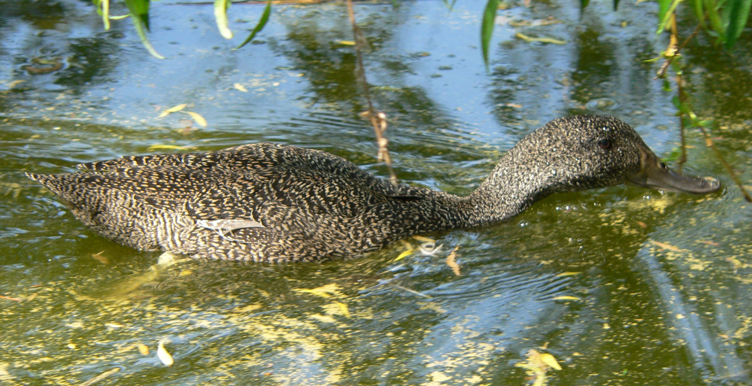 Freckled Duck